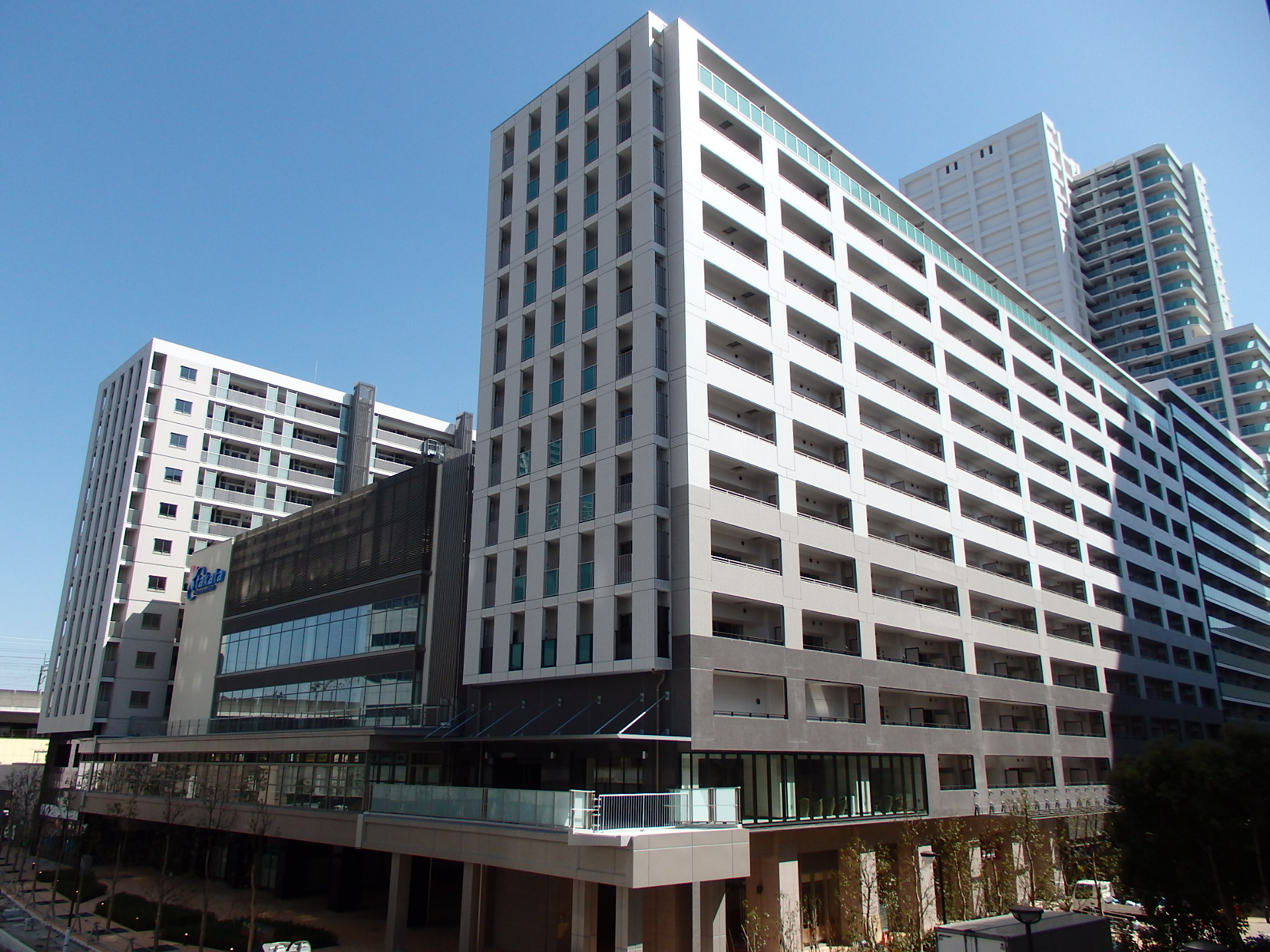 Musashi-Urawa Sky & Garden